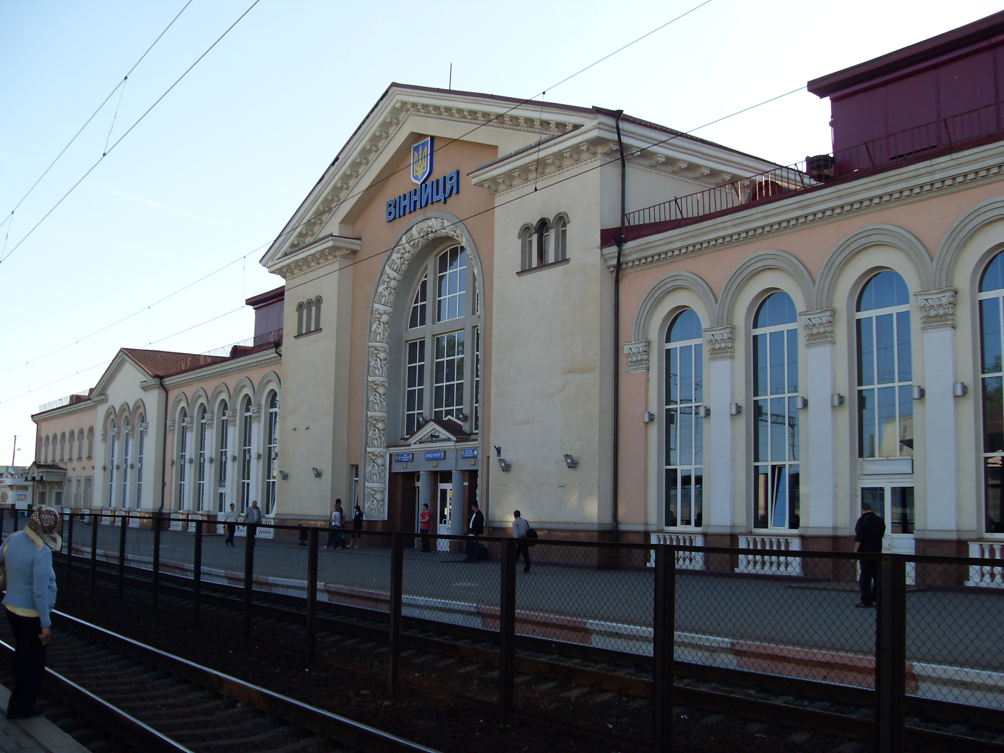 Vinnytsia Railway Station — the central station of Vinnica in Vinnytsya, Vinnytsia Oblast, Ukraine